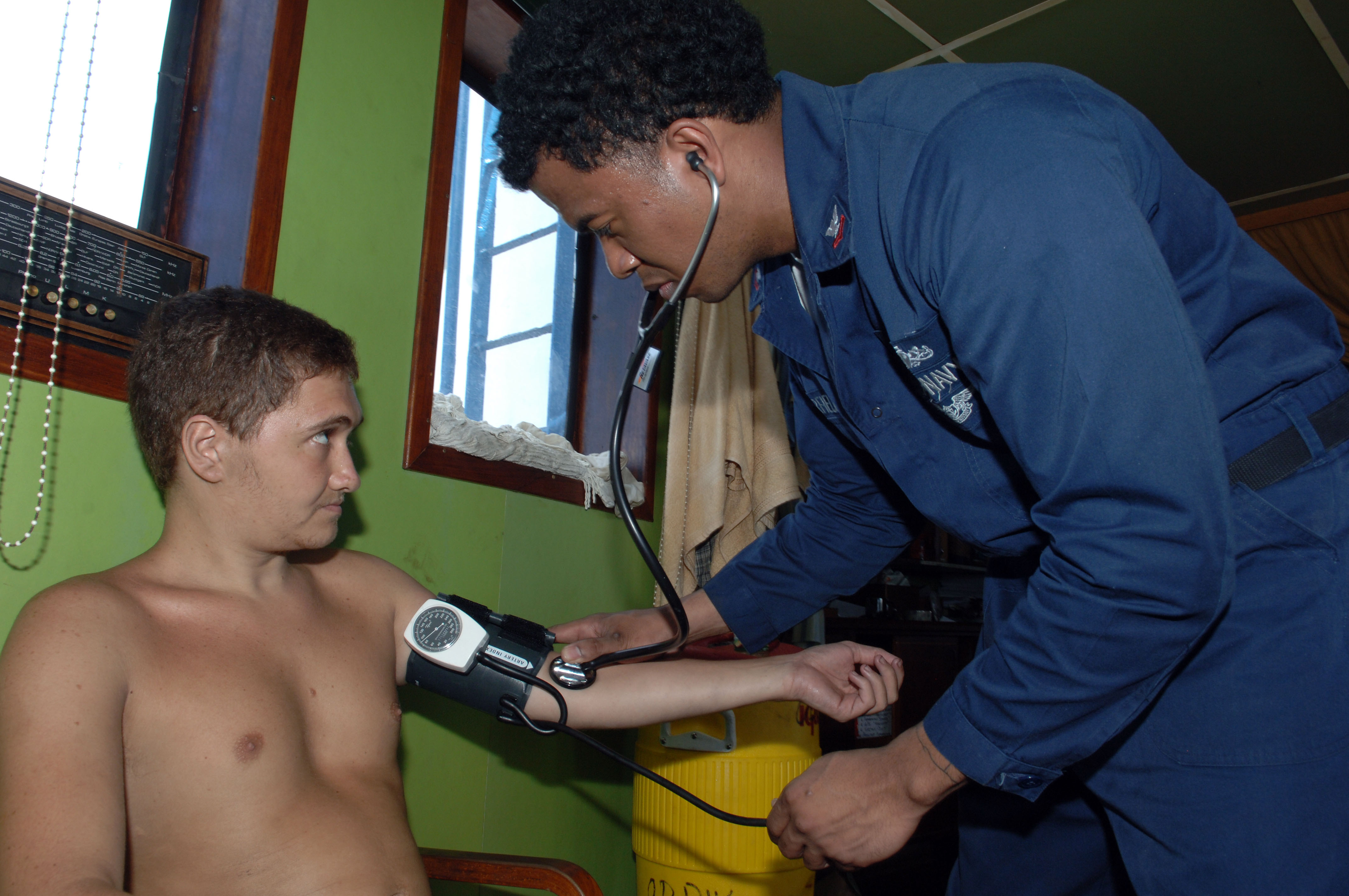 0090207-N-3931M-228 OFF THE COAST OF SOMALIA (Feb. 7, 2009) – Hospital Corpsman 2nd Class Patrick Satterfield from the guided missile destoyer USS Mason (DDG 87), checks the blood pressure of a crew member aboard Motor Vessel Faina. Somali pirates released Faina Feb. 5, after holding the ship hostage for more than four months at an anchorage off the Somali coast. The Belize-flagged cargo ship is owned and operated by Kaalbye Shipping Ukraine and is carrying a cargo of Ukrainian T-72 tanks and related equipment. (U.S. Navy photo by Mass Communication Specialist 1st Class Michael R. McCormick/Released)